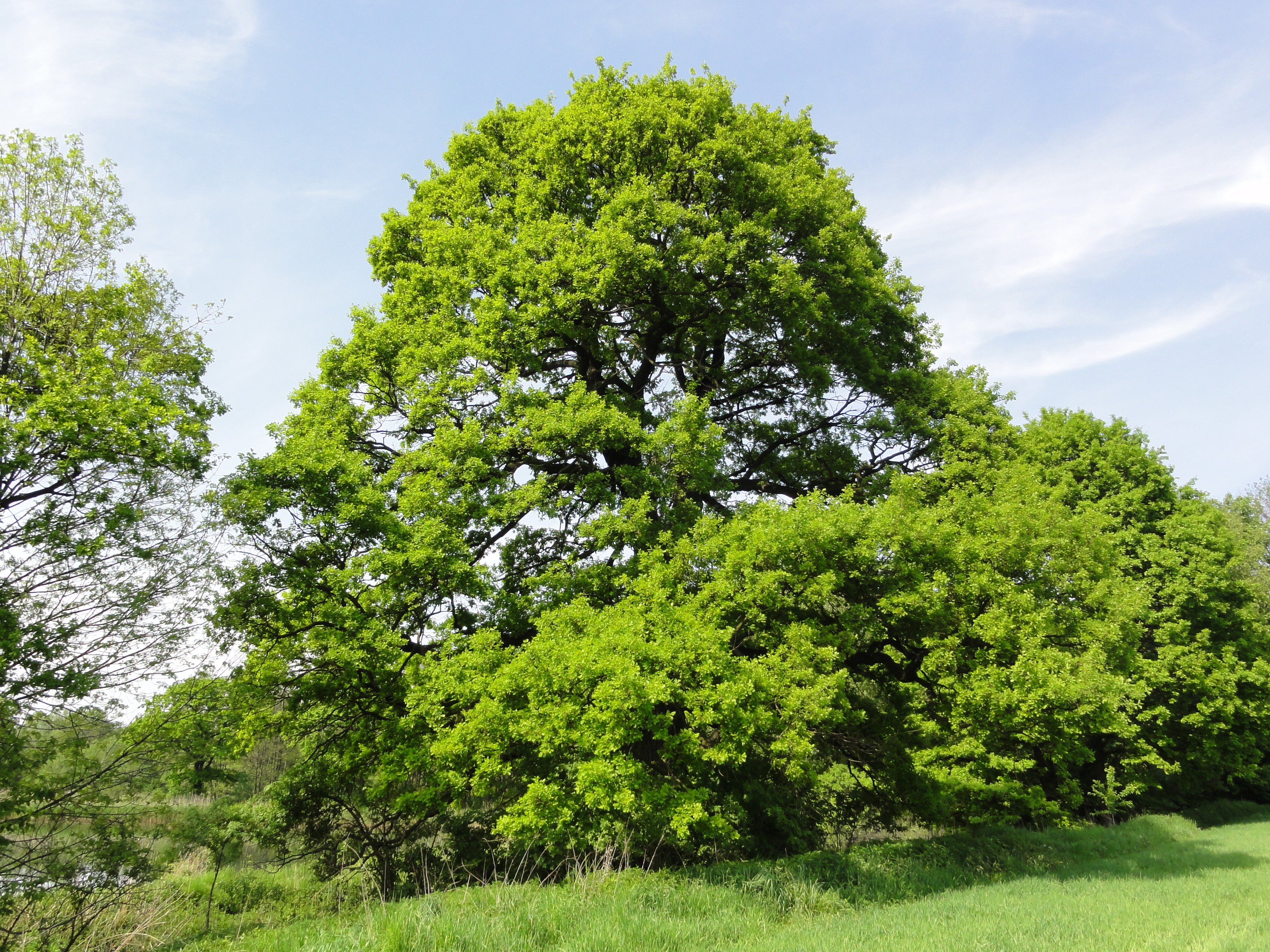 300-years old oak (Quercus robur) in Dębowiec, natural monument since 1959